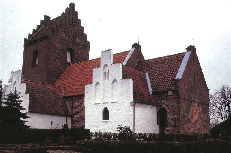 Benløse Kirke (church)